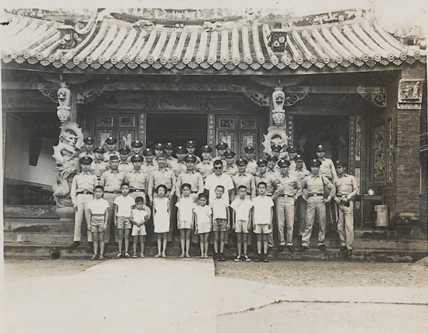 Officers and students of R.O.C. Air Force Academy in front of a temple. Shot in 1950s.